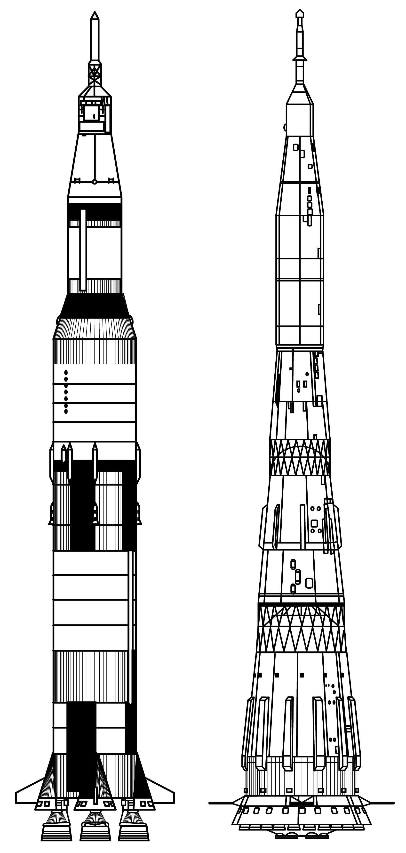 Saturn V (left) and N-1 (drawn to scale). Manned Moon rockets.